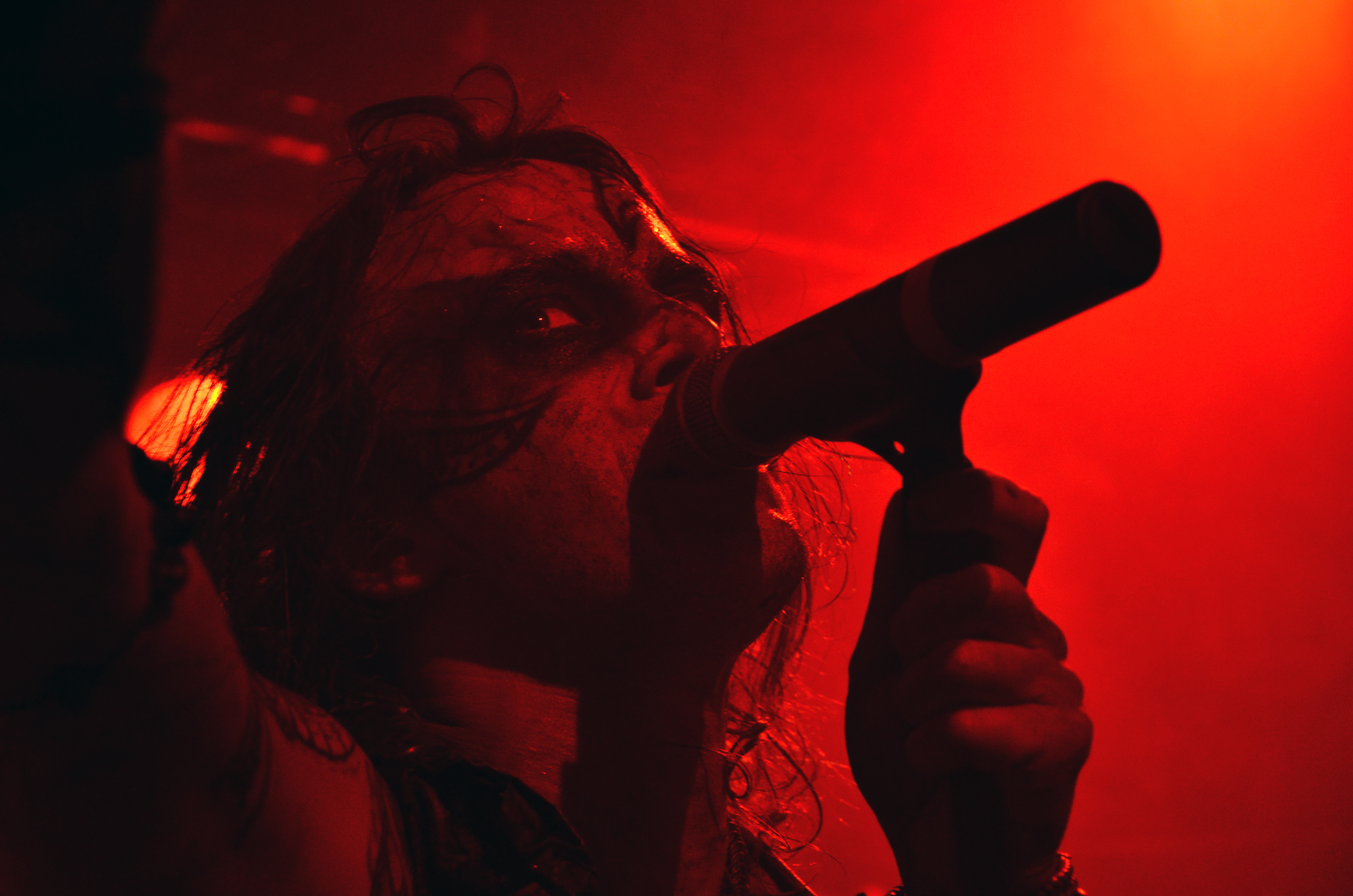 Watain performing at the Atelier des Môles in Montbéliard (France), on the 27th of March 2014 : E.